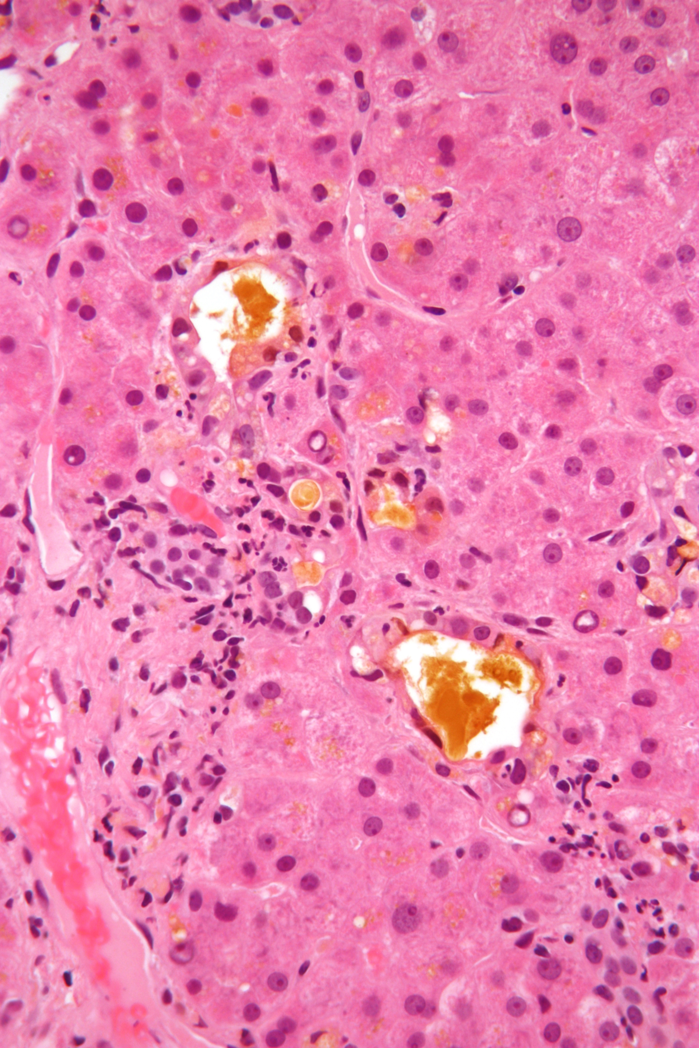 High magnification micrograph showing liver cholestasis. Liver biopsy. H&E stain.